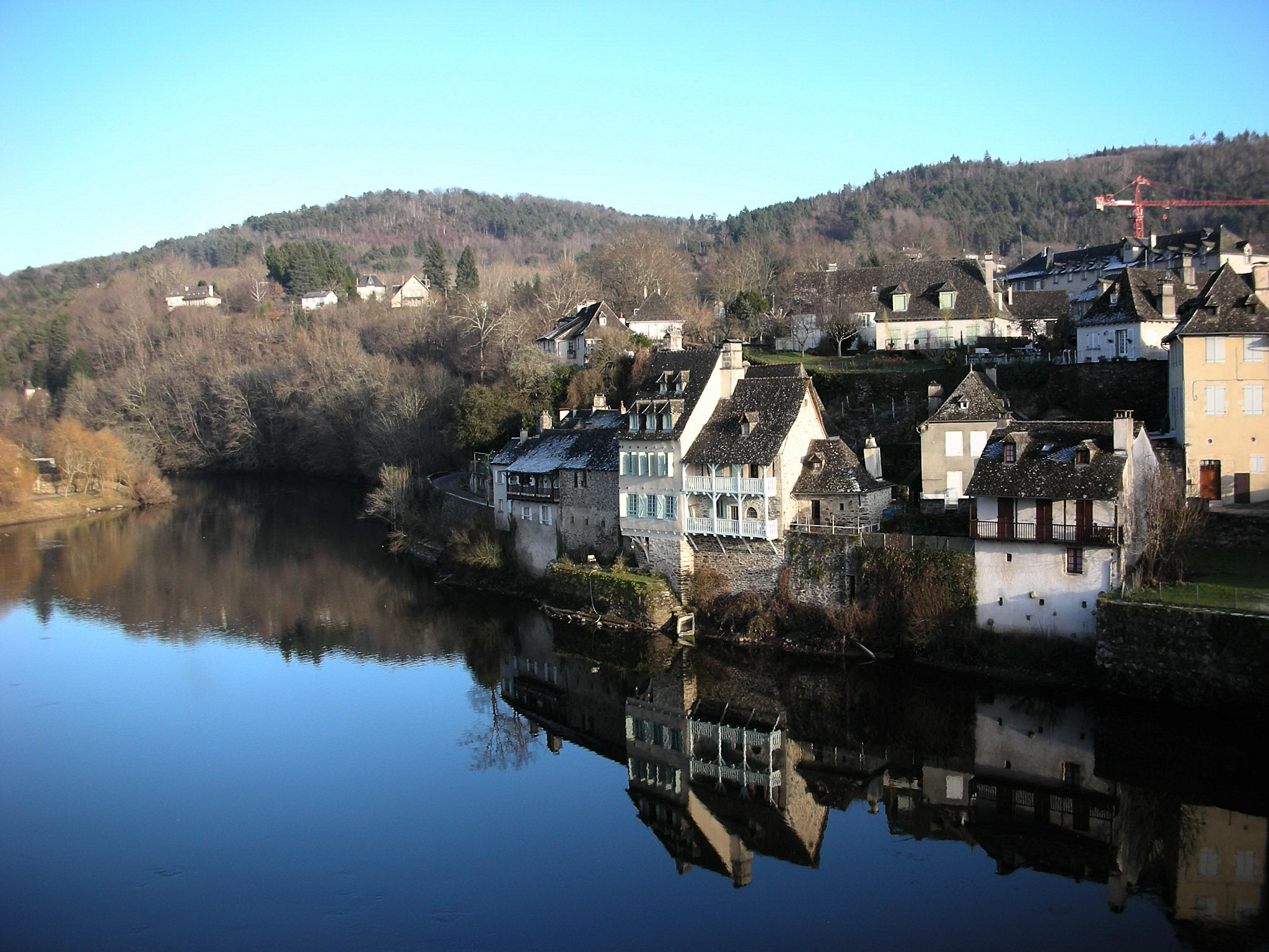 Houses along the Dordogne river in the French town of Argentat